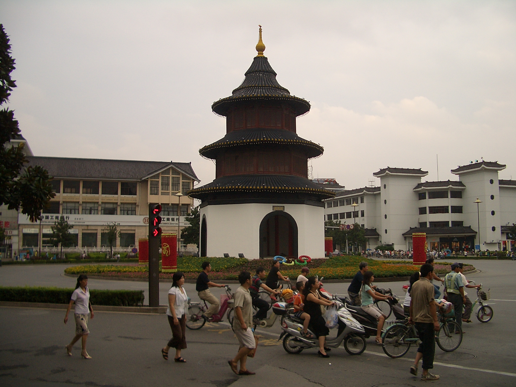 Two-wheeled traffic - including electric bicycles and electric scooters - going around Wenchang Ge (the Pavilion of Flourishing Culture) in Yangzhou's central square.